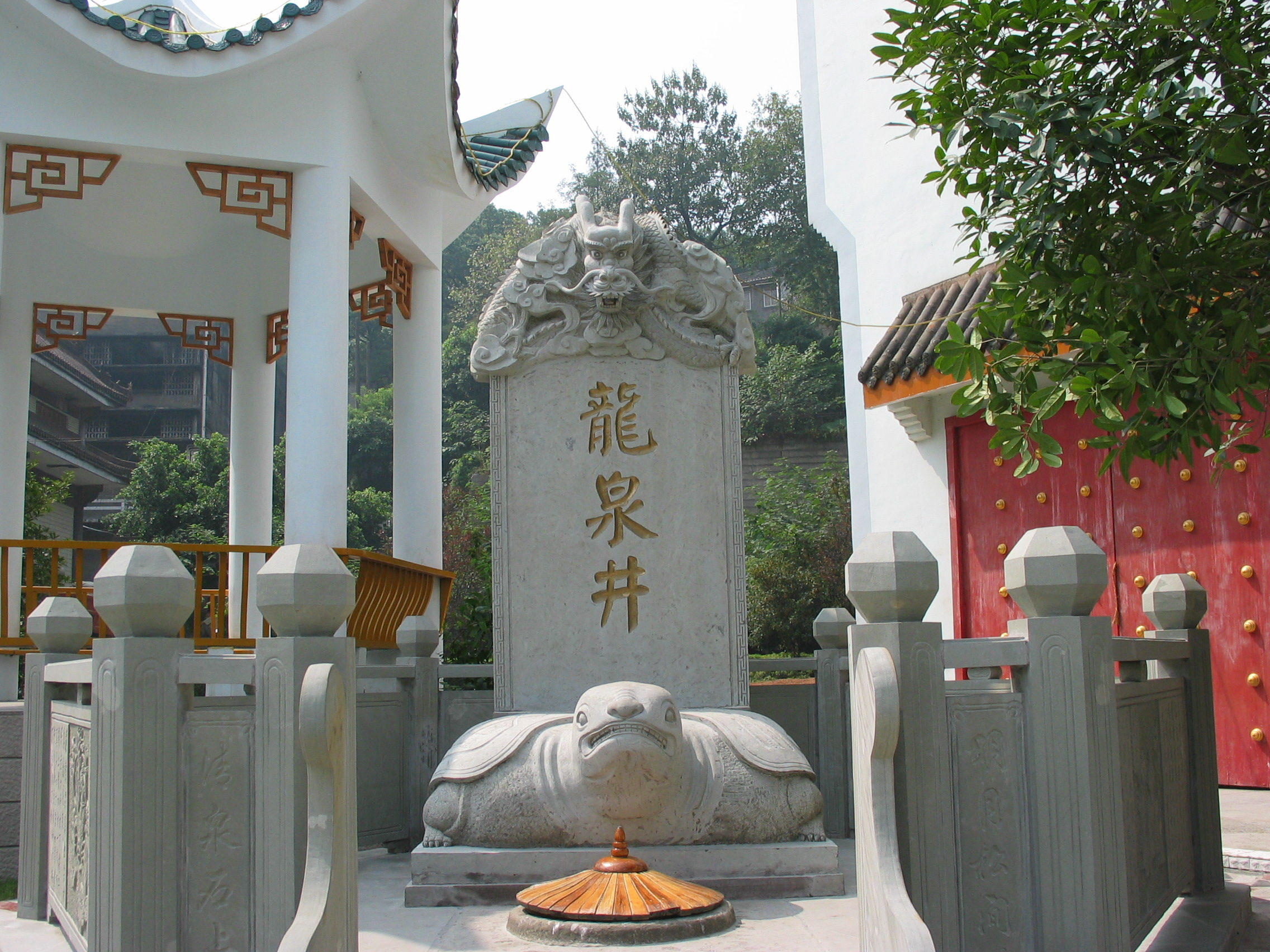 A newly-built Site of the Luzhou Old Cellar